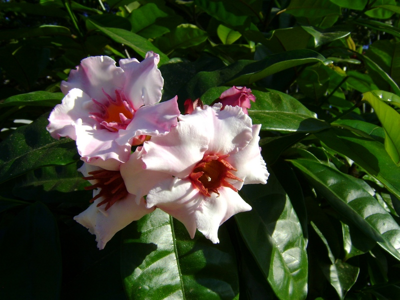 Strophanthus gratus Medium sized vine or shrub, relative to Frangipani (the same Family) Common name: Climbing oleander, Cream Fruit, Rose Allamanda Origin: West Africa Location: Darwin, Australia